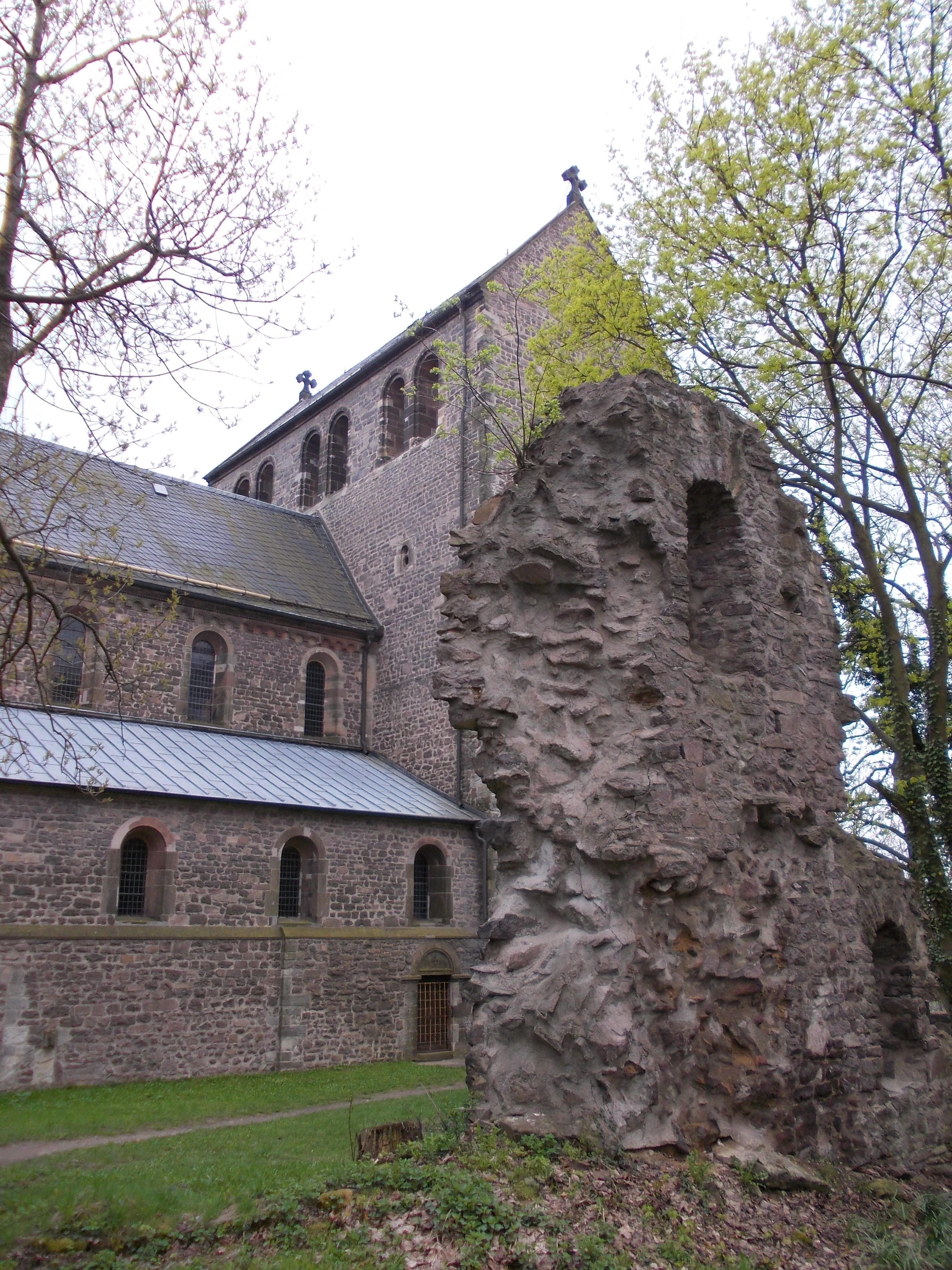 Ruins of the old chapel of Petersberg Monastery (Saalekreis, Saxony-Anhalt) with St. Peter Collegiate Church